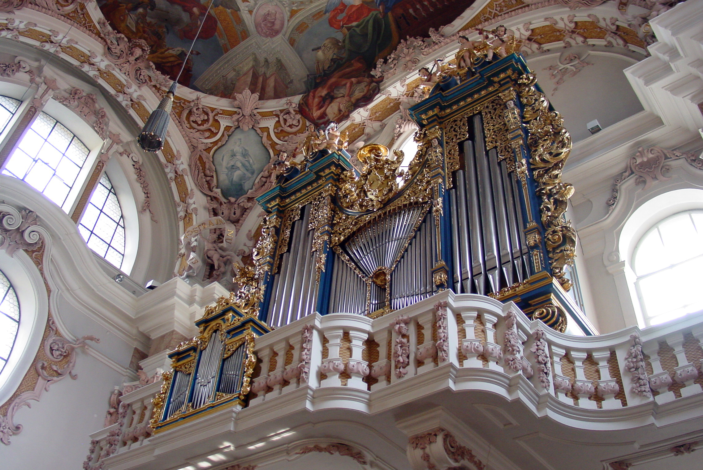 Cathedral of St. James in Innsbruck, Austria